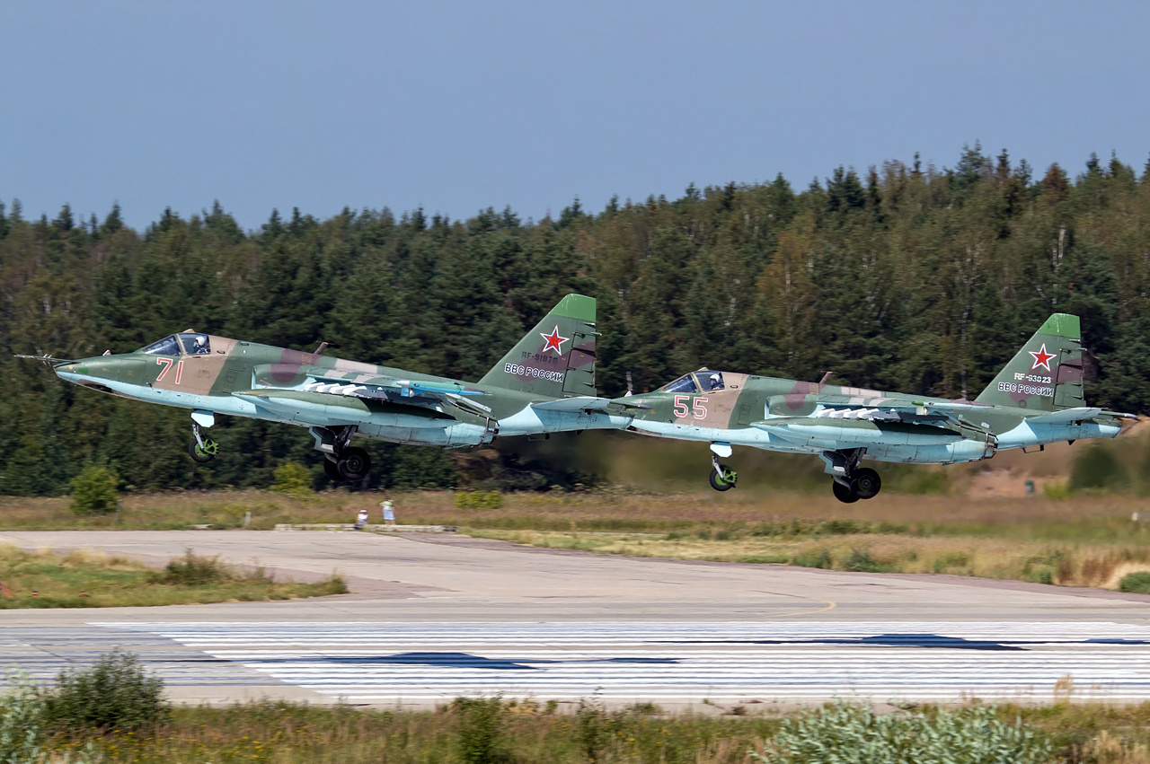 Russian Air Force Sukhoi Su-25